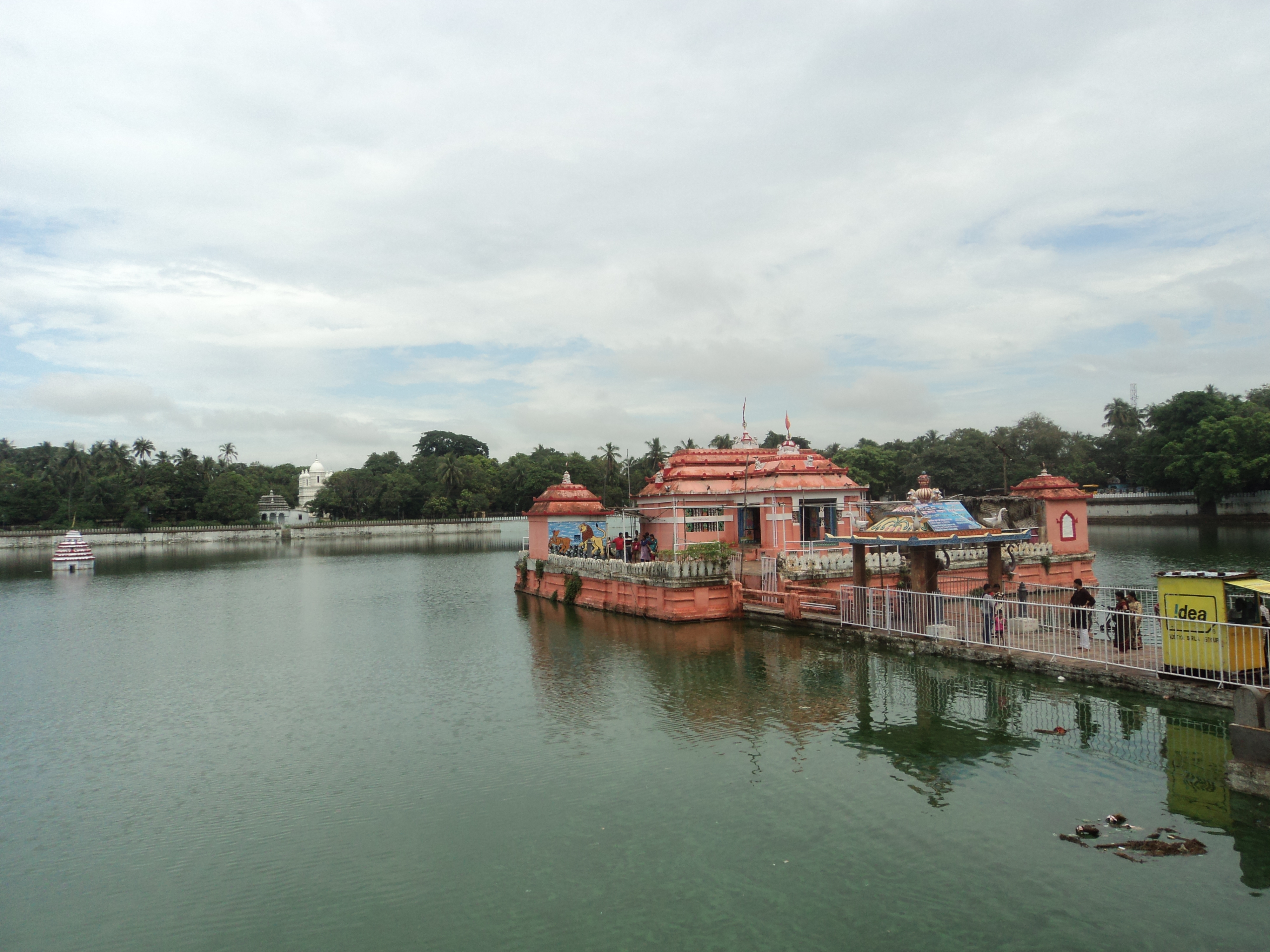 ଓଡ଼ିଆ: Narendra Tank (Chandan Puskarani) One of the significant Ancient Pond of Holly city Puri,Odisha